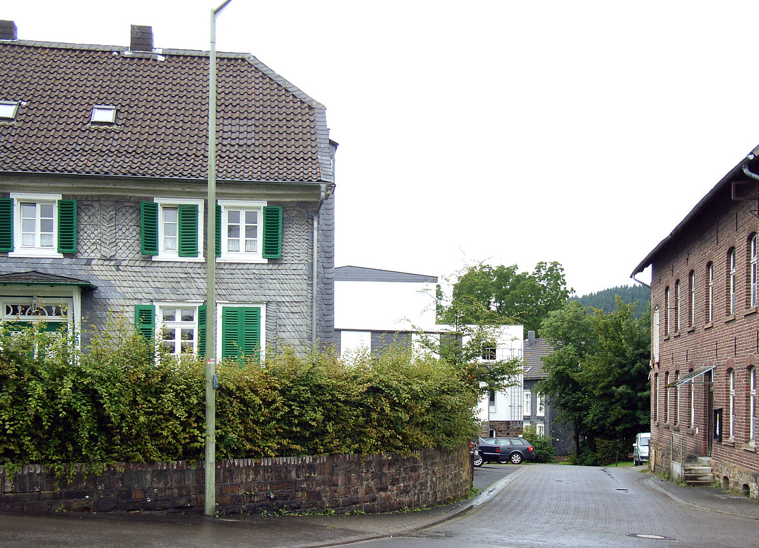 view of Hunstig, district of Gummersbach, North Rhine-Westphalia, Germany